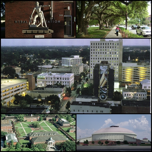 From upper left: Statue in front of downtown fire station, Oak lined street in the University district, Downtown Lafayette, Louisiana, The Cajundome, and the University of Louisiana at Lafayette quad.